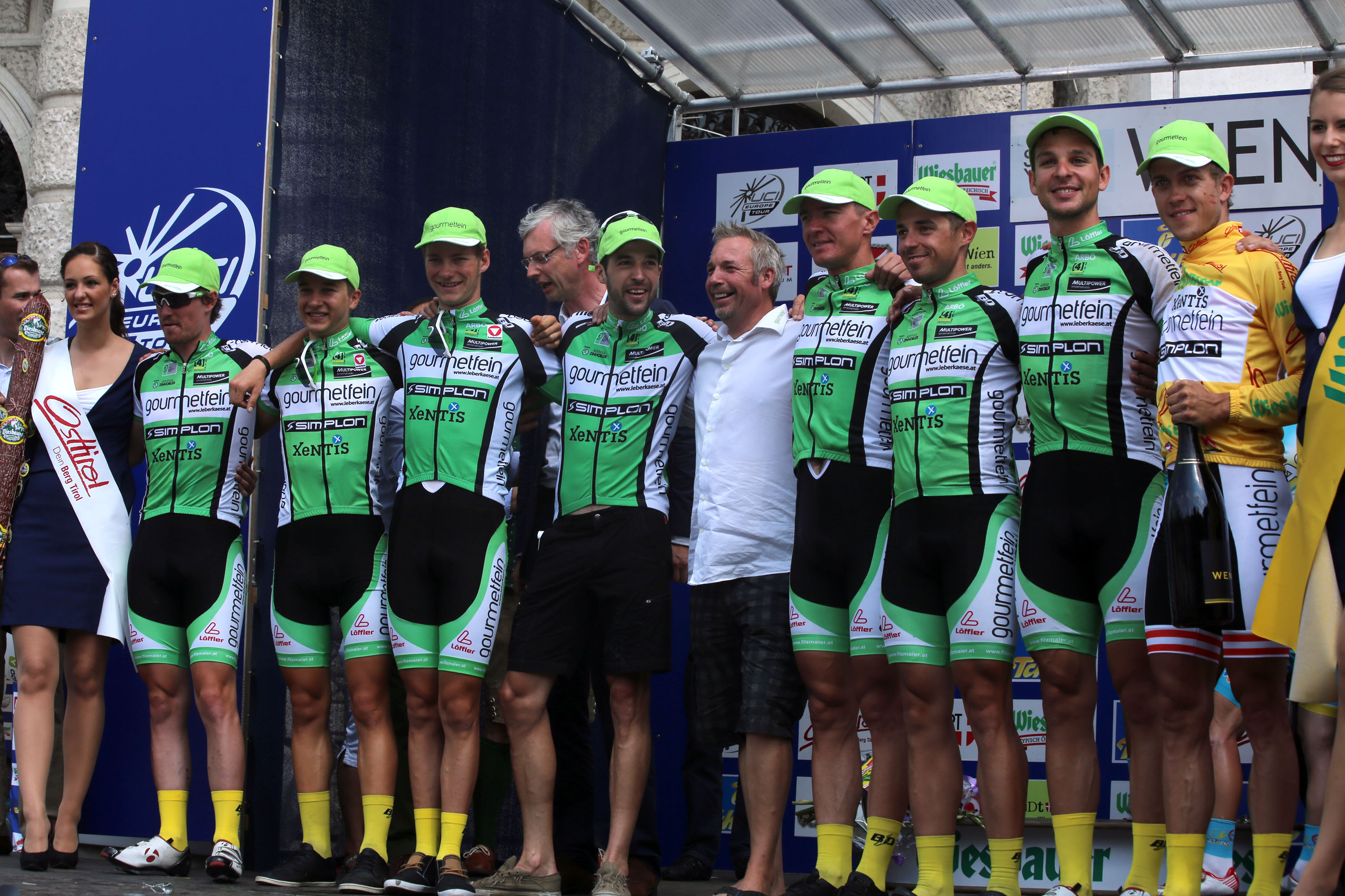 Winner Riccardo Zoidl and team Gourmetfein-Simplon at the award ceremony of the Tour of Austria in Vienna, Austria.